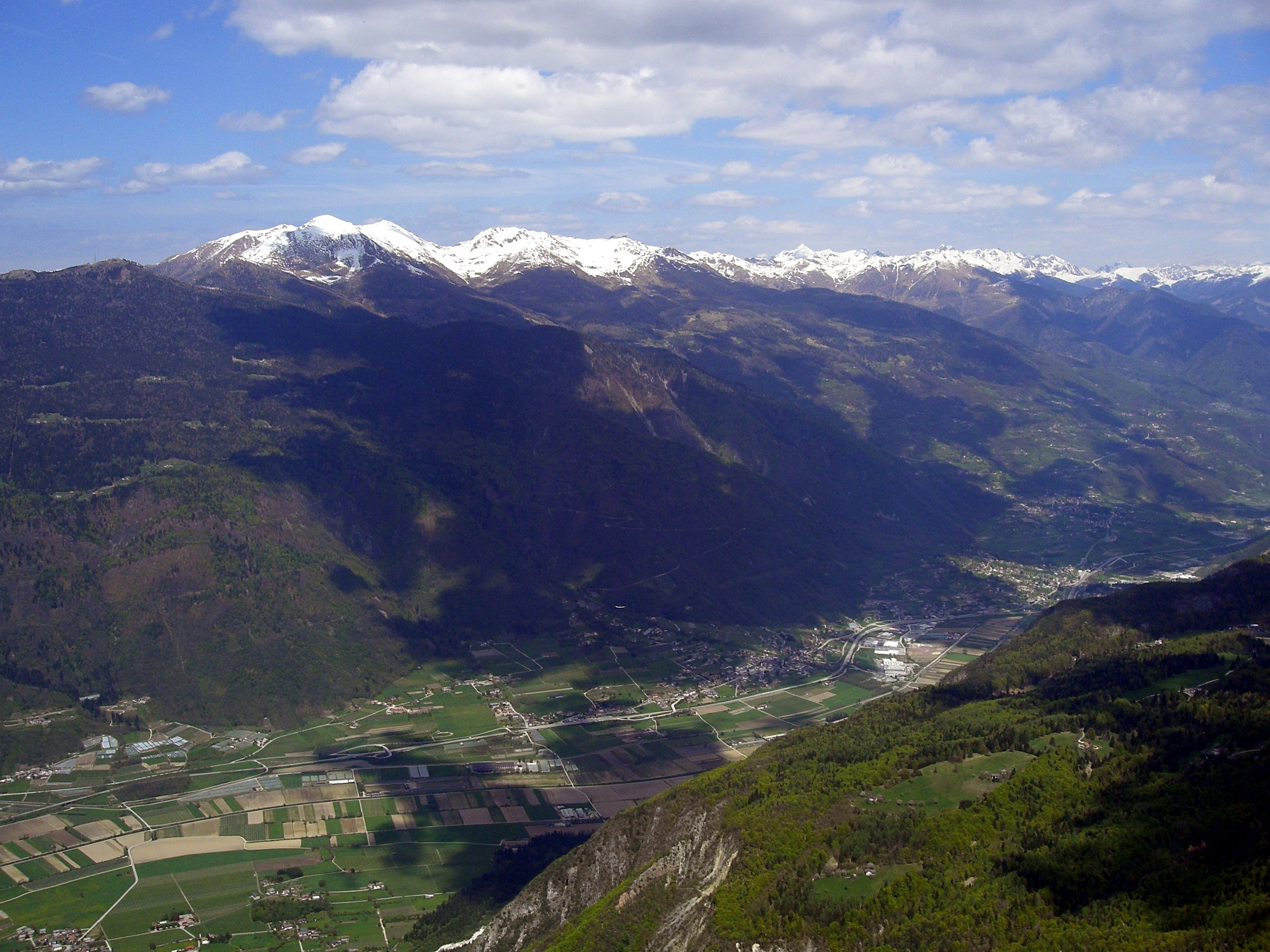 The Marter village (in the municipality of Roncegno Terme, Trentino, Italy) and the municipality of Novaledo (Trentino, Italy) viewed from Cima Vezzena (Pizzo di Levico).